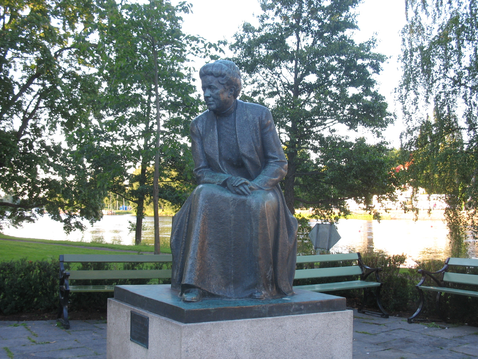 The statue of Nobel Prize winner Selma Lagerlöf, Karlstad, Sweden